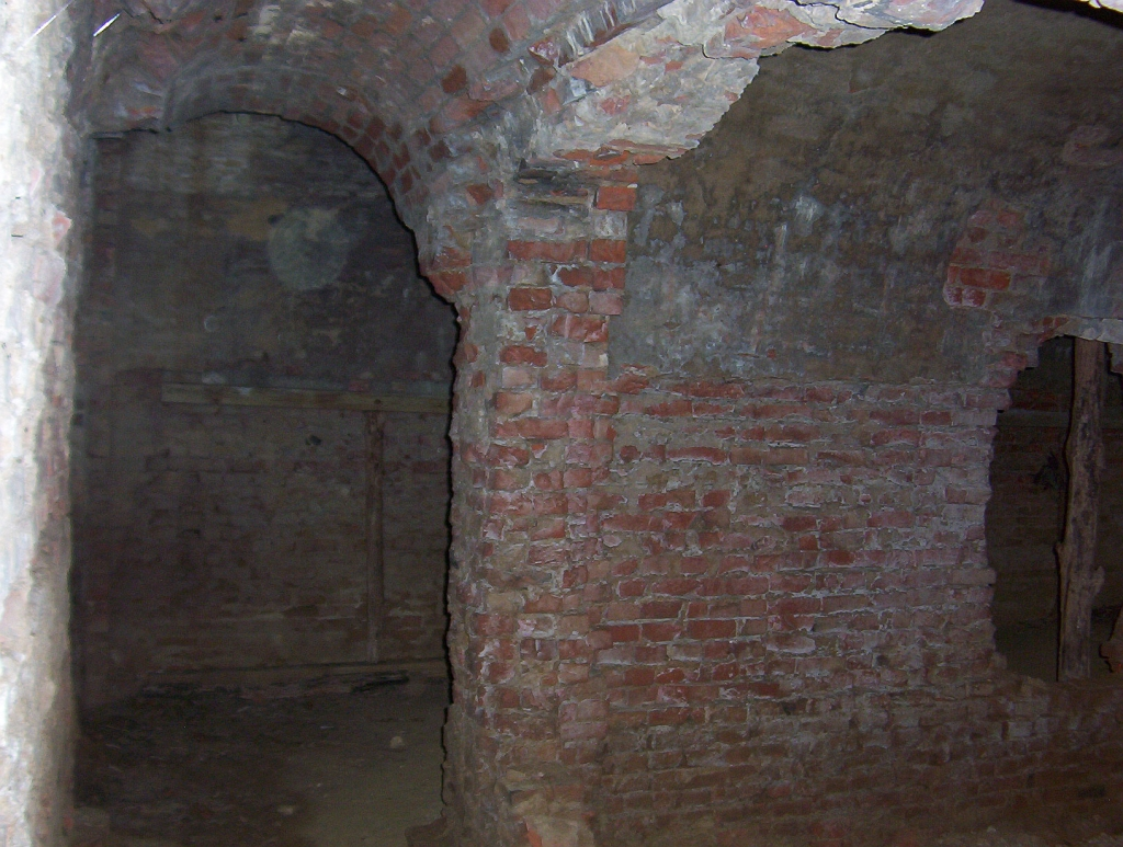 Inside of the powder magazine of Fort Wright (historical) in Randolph, Tennessee. I made the photo myself, feel free to use it.